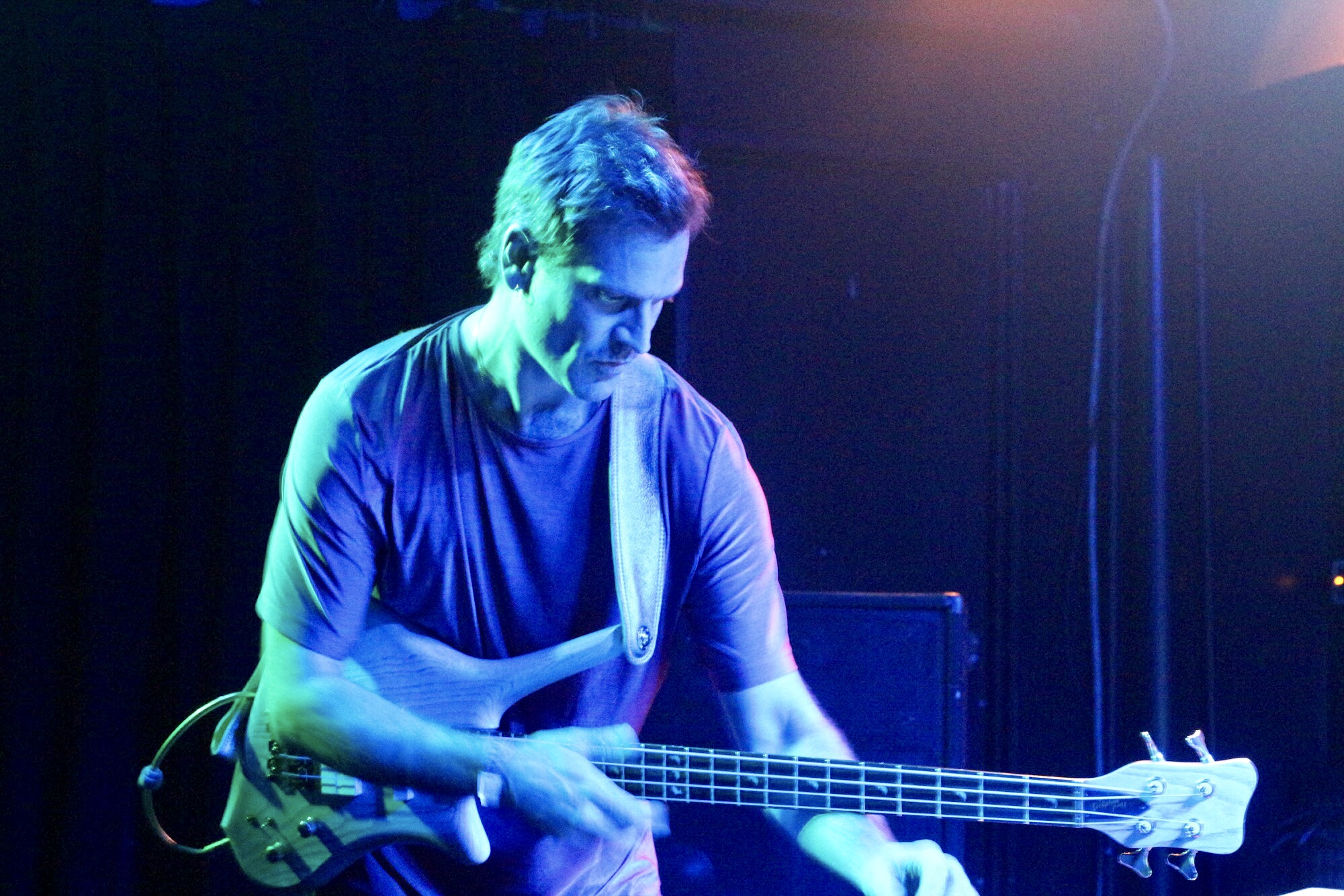 Touch Sensitive performing at the Marquis Theatre in June 2018